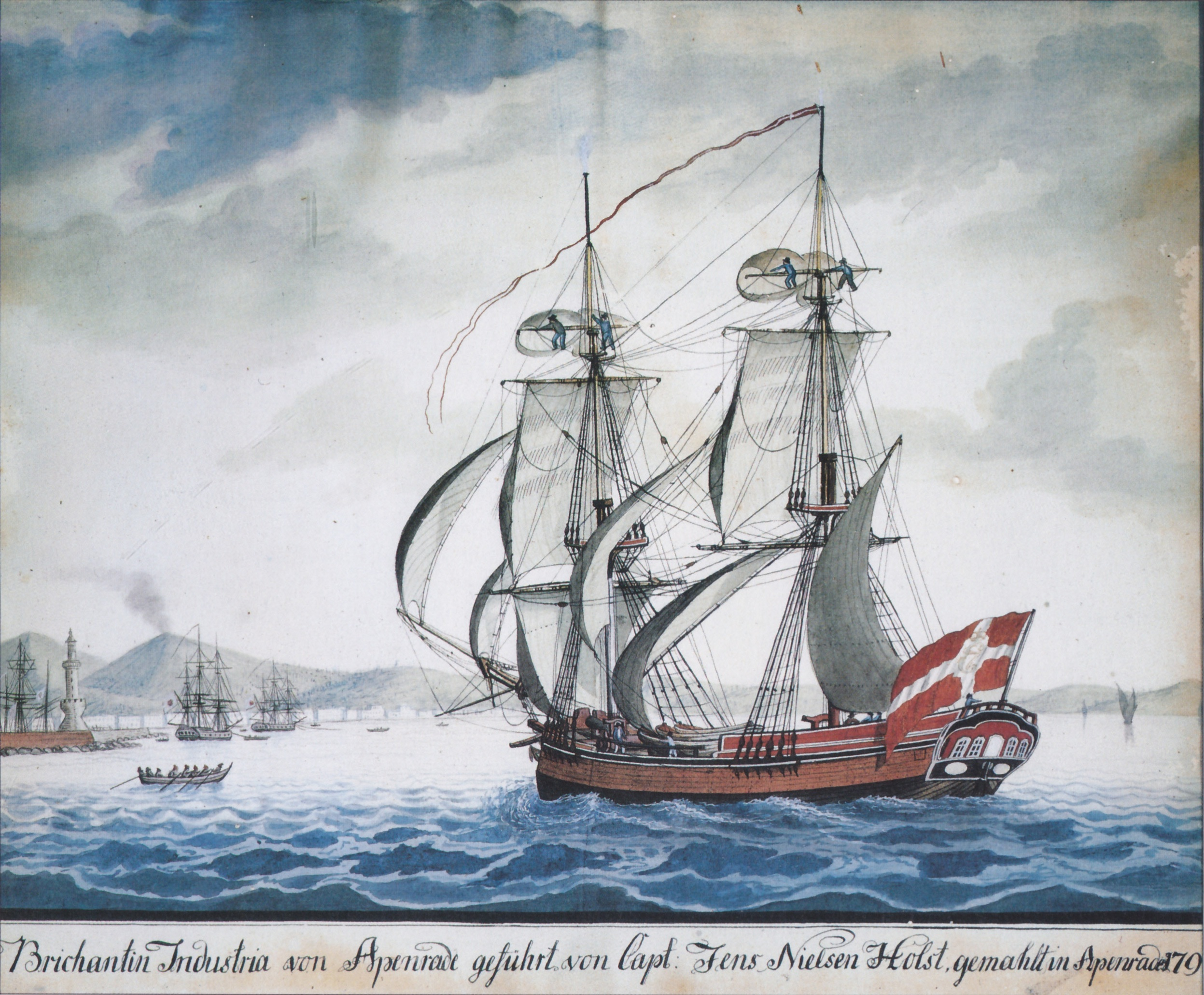 The brigantine Industria of Aabenraa is seen here on the roads of Naples. The painting was actually made in Aabenraa in 1799, with pen and watercolour, 37.5 x 45 cm. It belongs to the collection of Kulturhistorie Aabenraa (part of Museum Sønderjylland).